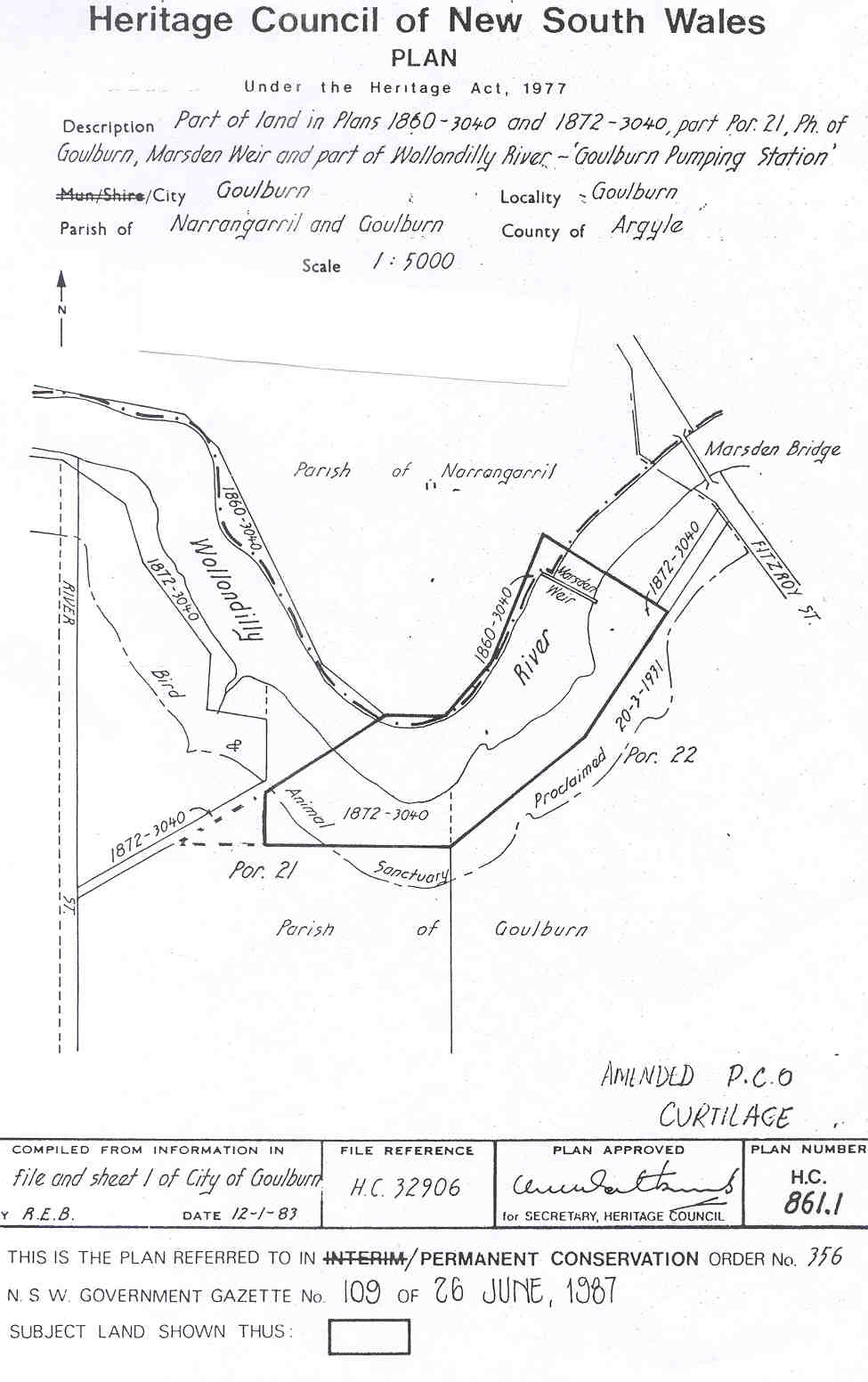 Goulburn Pumping Station: PCO Plan Number 356